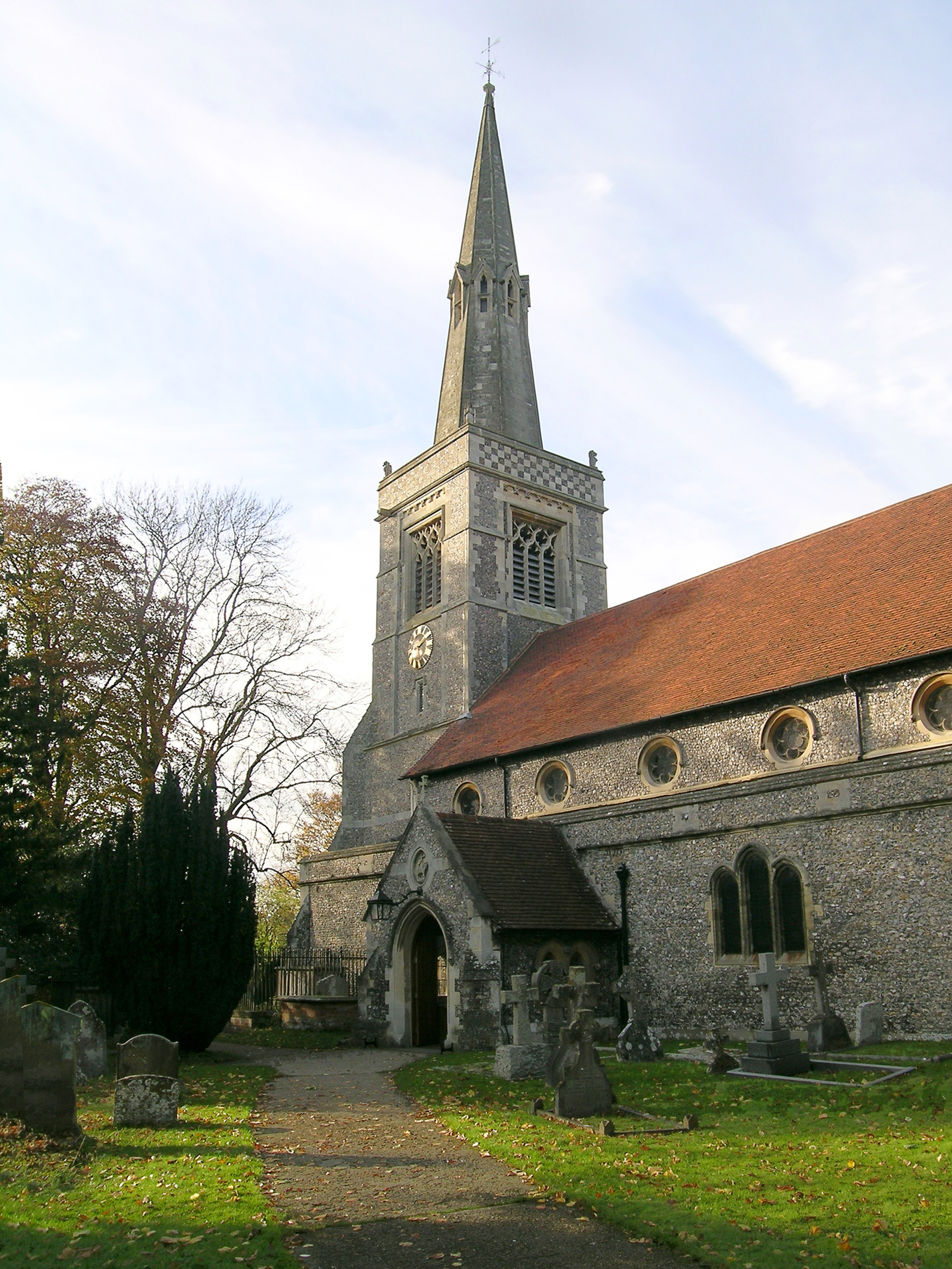 St Marys Church, Princes Risborough, Bucks, England seen from south-east